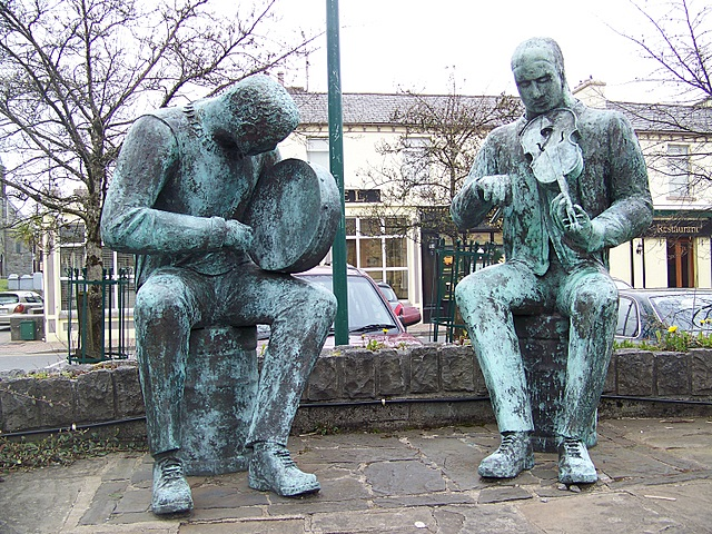 Statues, Lisdoonvarna/Lios Duin Bhearna Lisdoonvarna ('fort of the gap') is famous for its matchmaking season, and it holds a special place in Ireland's social history. Around 1900, wealthy families began using Lisdoonvarna as a meeting place where they could arrange suitable marriages for their children. From late August, with the harvest in, they gathered here for the first of many dances. By the 1970s this sedate tradition had begun to change. City people started coming to the hotels in search of marriage partners, swelling the population to 10,000 on September weekends. The Lisdoonvarna phenomenon resulted in hundreds of marriages. But matchmaking is a seasonal business. A core population of about 1000 people remain in the town during the winter.